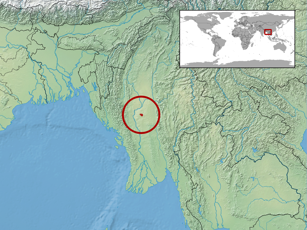 geographic distribution of Cyrtodactylus brevidactylus (Native: Myanmar)